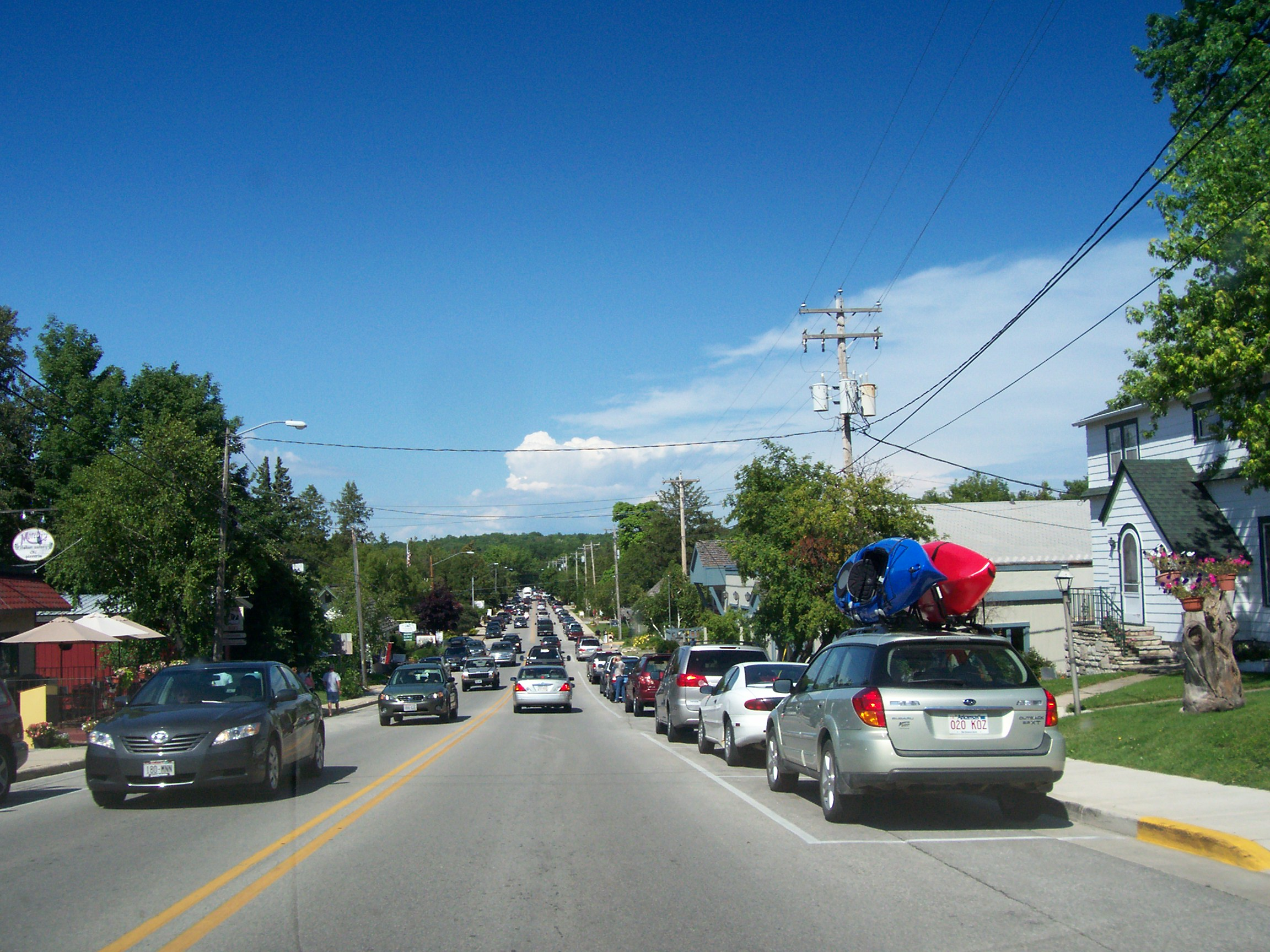 Looking north at downtown Sister Bay, Wisconsin on Wisconsin Highway 42, showing the typical backups with tourist traffic.